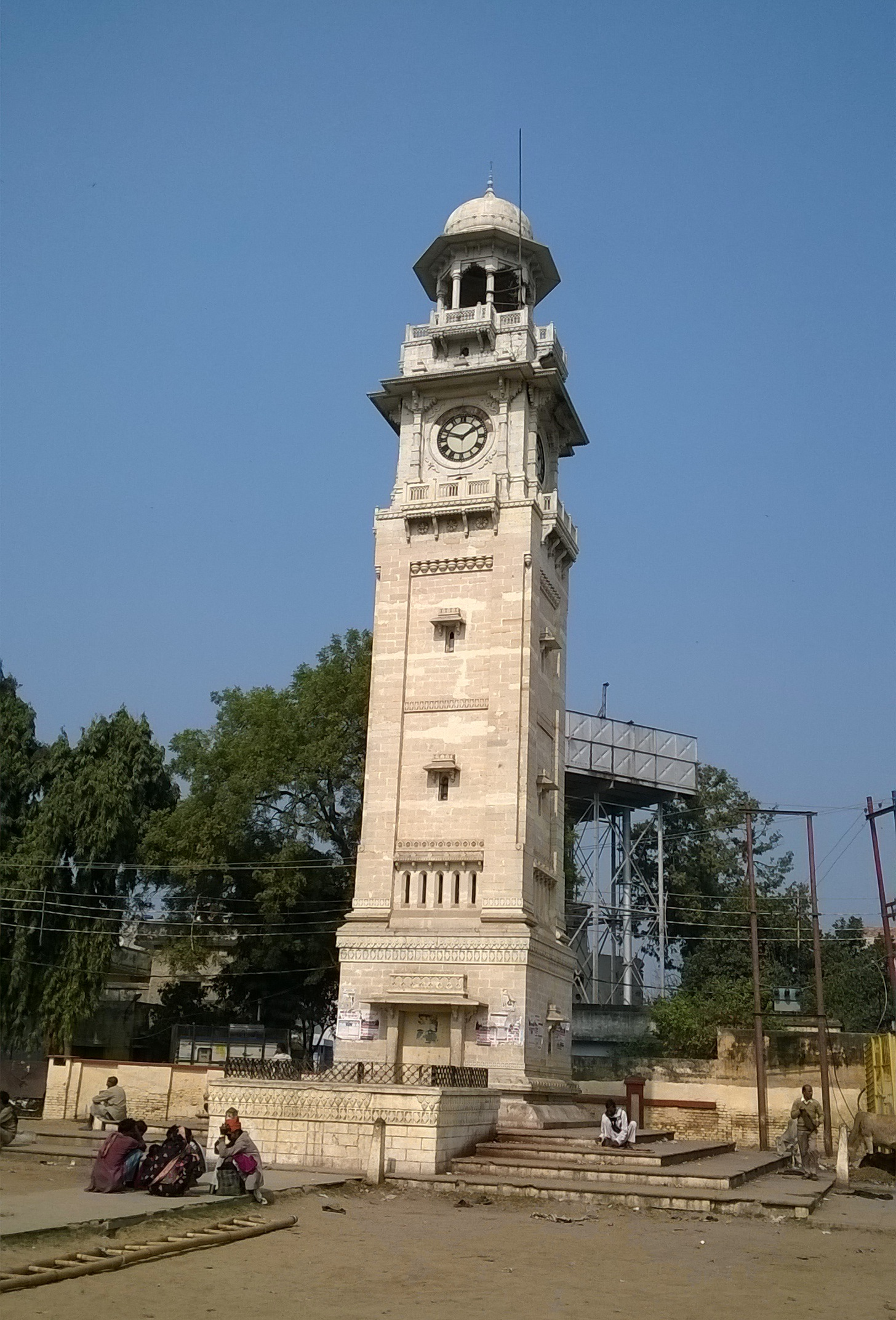 Bahraich Clock Tower build in 1911. this is center of city